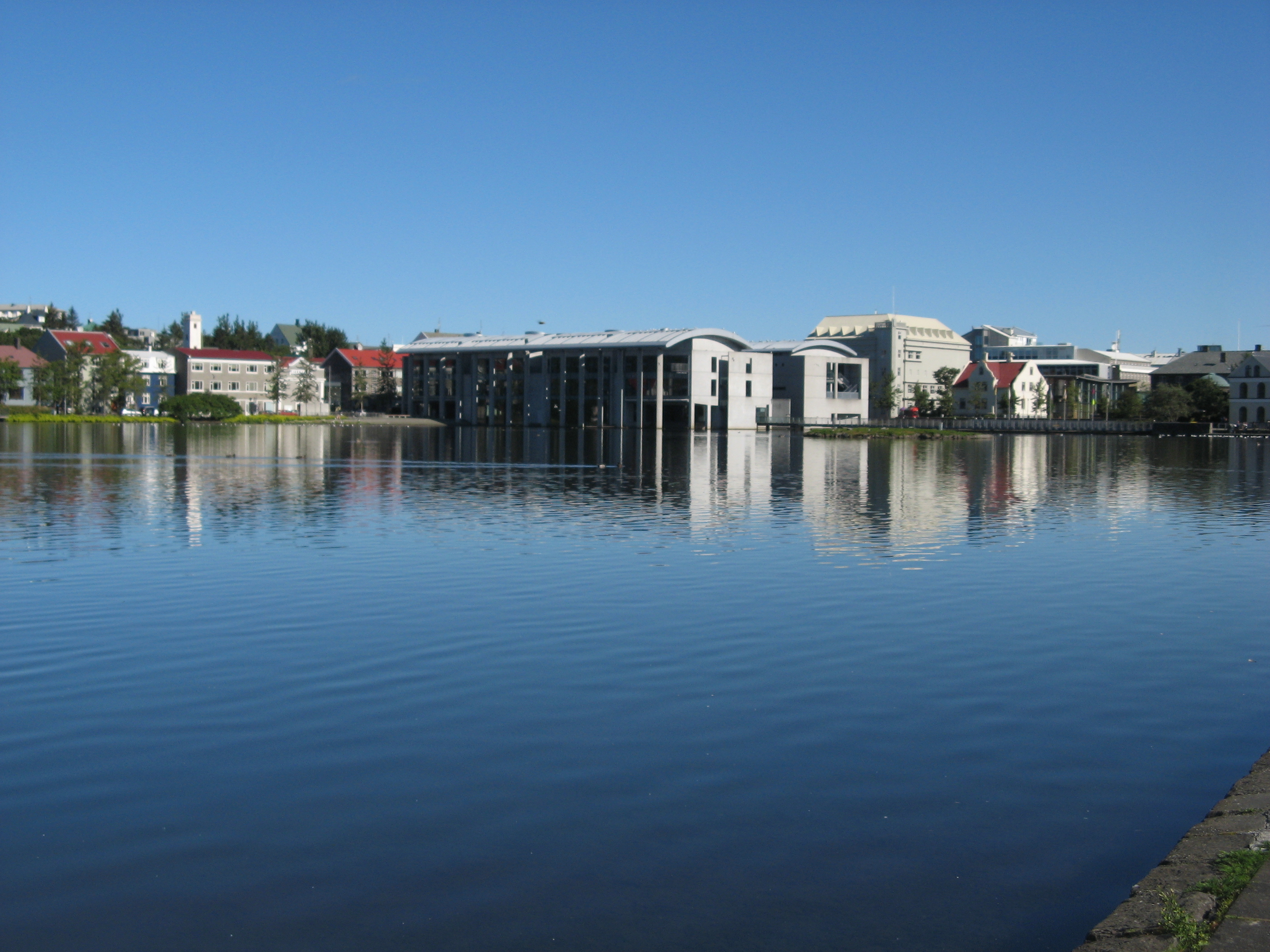 reflection of houses in reykjavik in the lake near the city hall